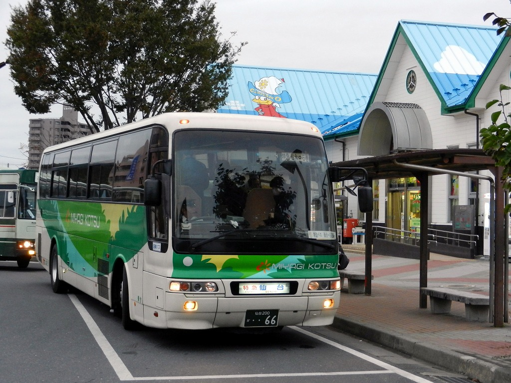 Extra Hidhwaybus "Sendai-Ishinomaki"(Miyagi kotsu,at Ishinomaki station)